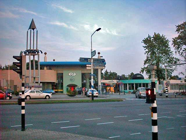 Own picture from Andre Engels. Assen railway station, July 2004. Colours and contrast improved by Jan Lafeber (Gouwenaar)